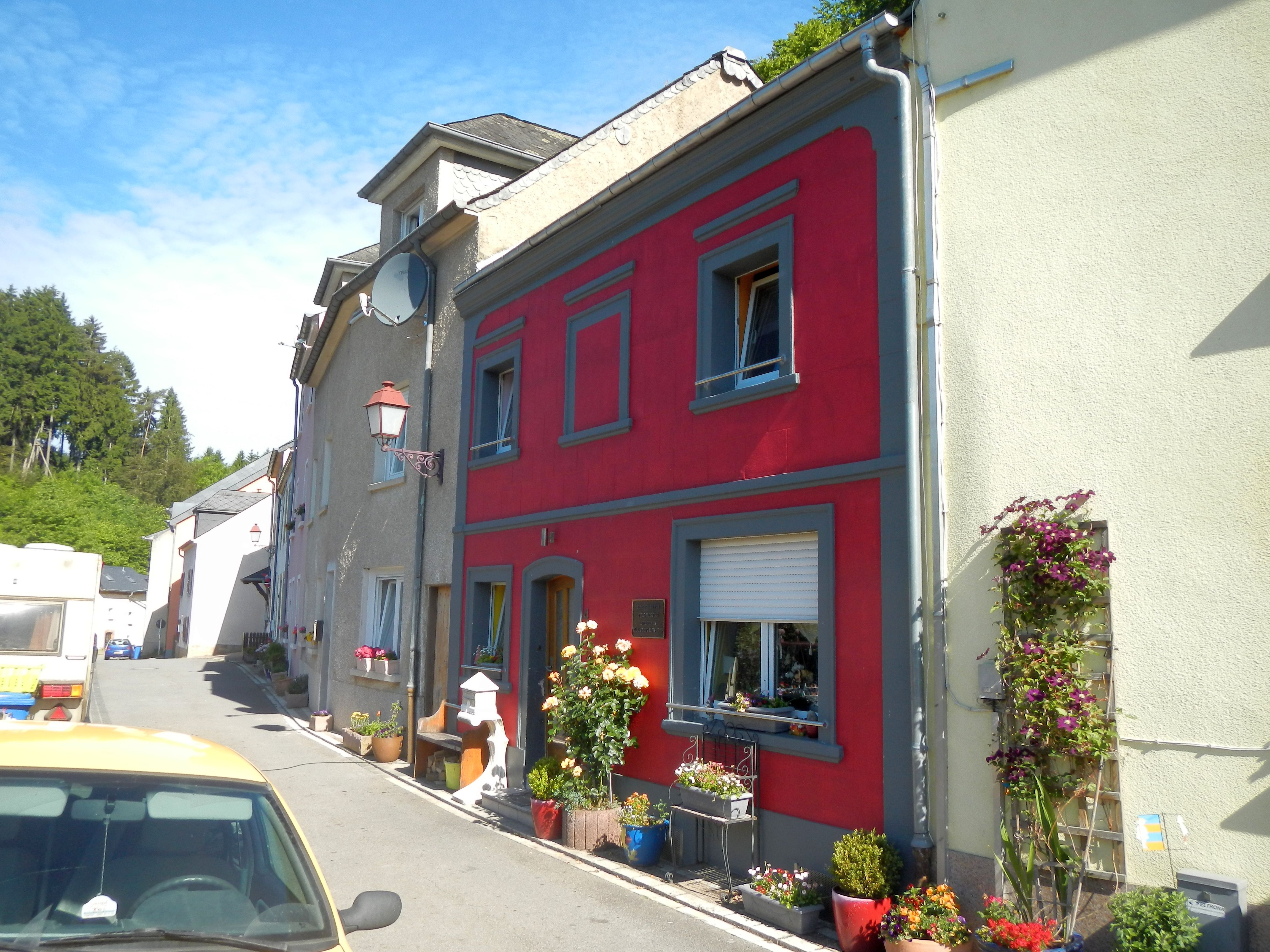 Birth house of Luxembourg composer René Mertzig (1911-1986) located at 4, rue de Bissen, Colmar-Berg, Luxembourg.